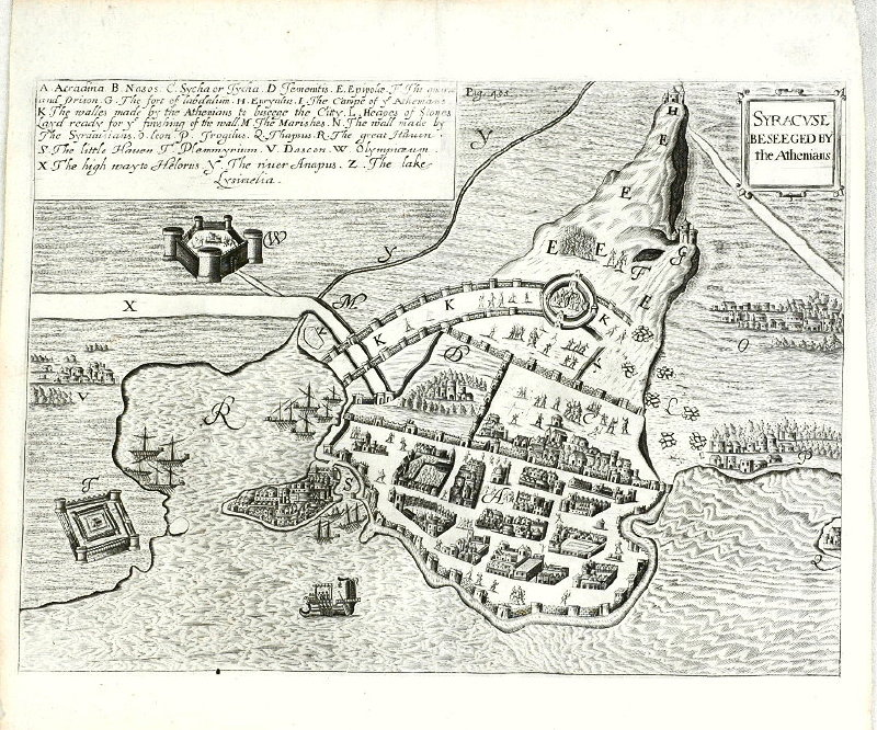 Antique map of the Siege of Syracuse by the Athenians, Sicily printed for 'Eight Bookes of the Peloponnesian Warre' by Thucydides (417-400? BC)